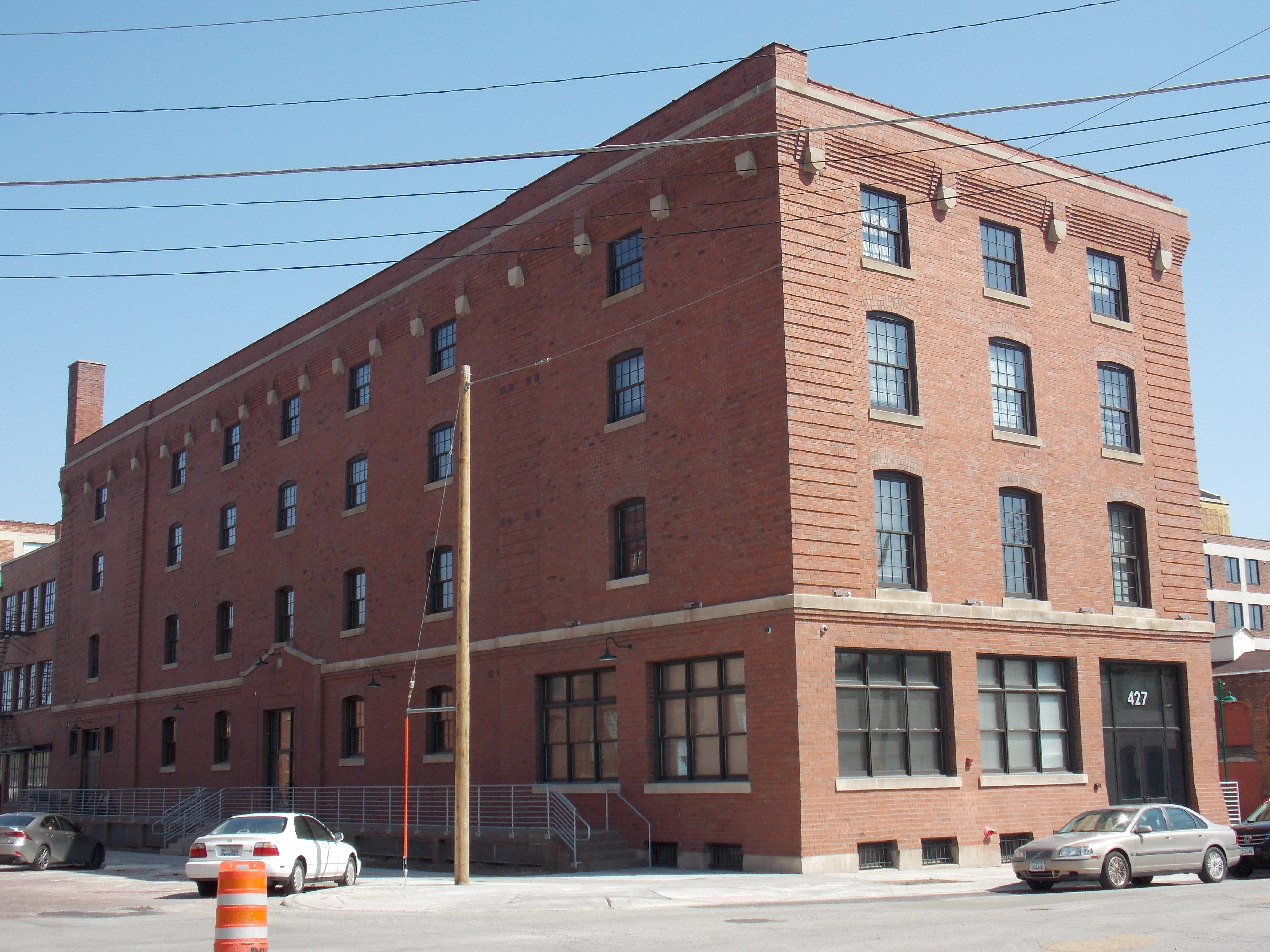 Market Lofts in Davenport, Iowa was originally the Smith Brothers and Burdick Company building. It is a contributing property in the Crescent Warehouse Historic District.